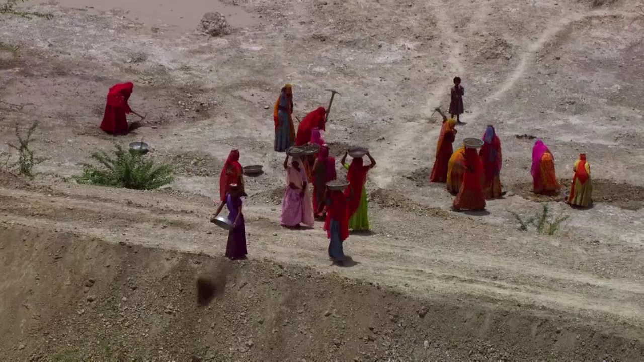 Women employed under MNREGA